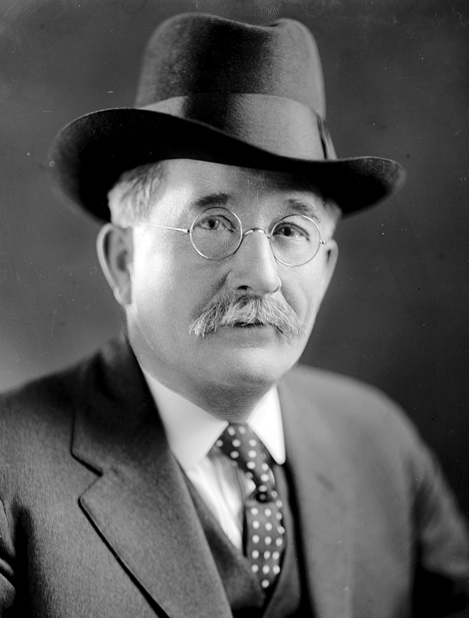 Samuel A. Shelton, US Representative from Missouri